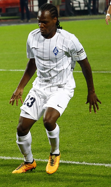 Jerry Mbakogu with FC Krylia Sovetov Samara in a game against FC Lokomotiv Moscow.